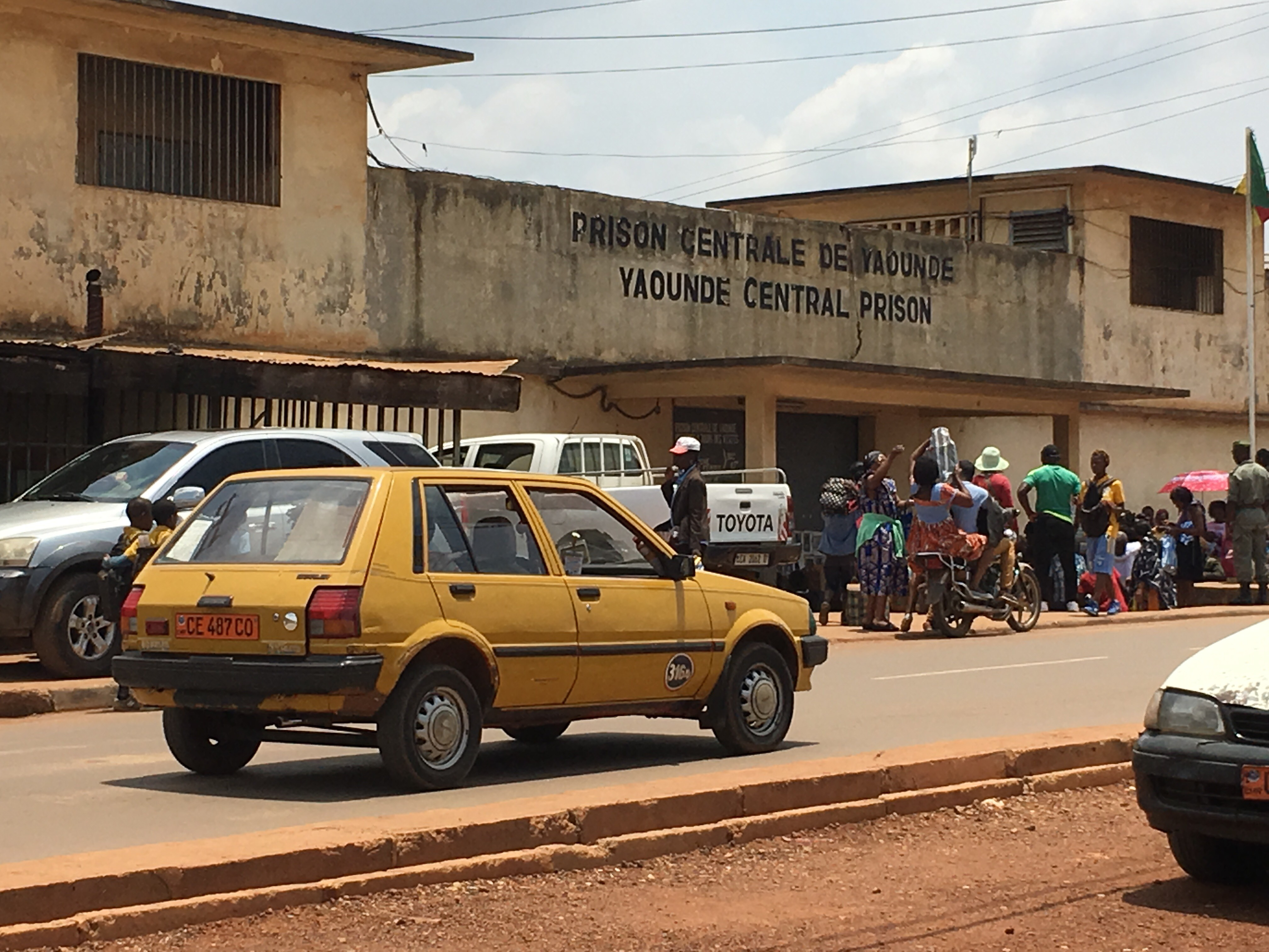 Yaounde Central Prison, Cameroon, 22 March 2018. (VOA/Emmanuel Jules Ntap)